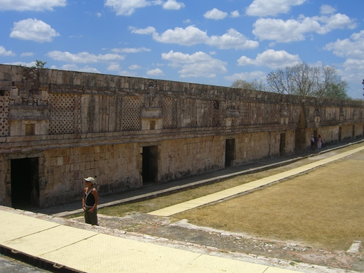 South building (to ball court) of the Nunnery Quadrangle at Uxmal, Yucatán